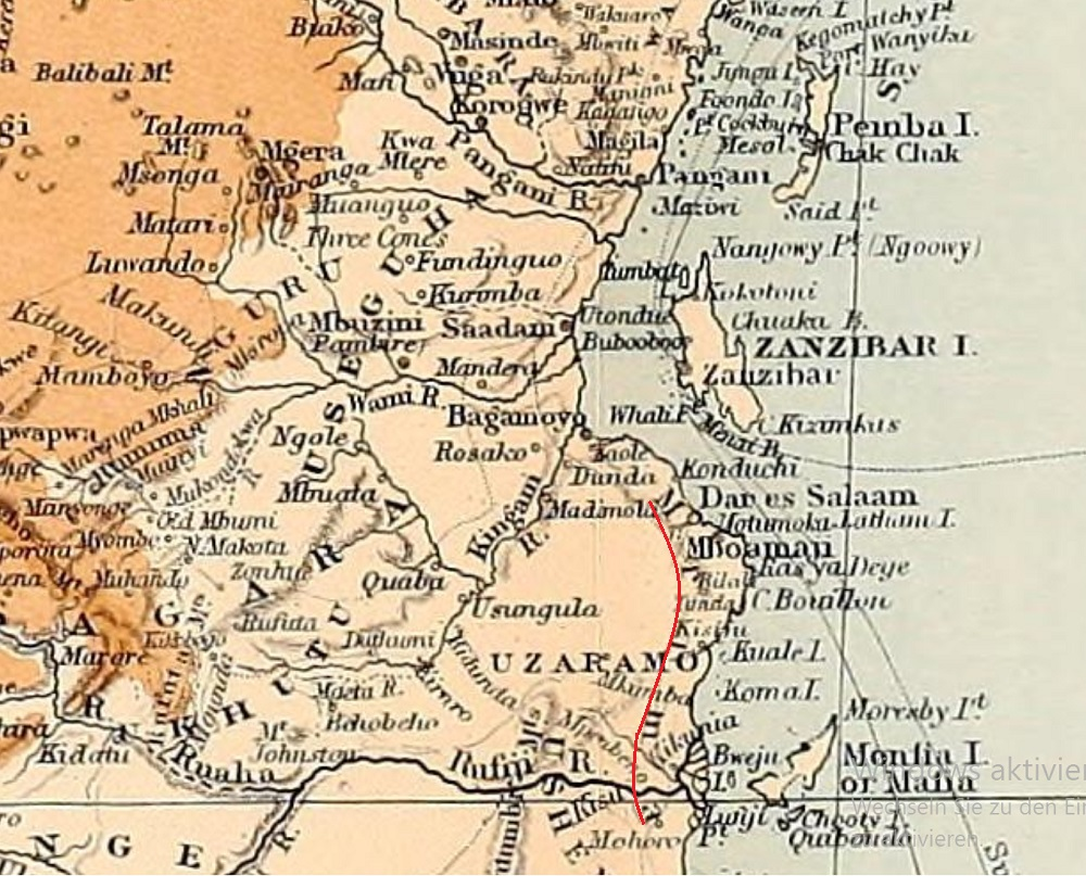 Part of a lager 1890 map of East Africa, showing the designation "Mrima" on the strip between Dar es Salaam and Rufiji River; this is only the southern part of what was at that time described as Mrima, where it would either be the area from Southern Kenya (Vanga) to the Pangani River, or from Vanga down to Kilwa. Kiswahili: Sehemu ya ramani ya Mmarekani kuhusu Afrika ya Mashariki. Inaonyesha jina la "Mrima" kwenye pwani kati ya Dar es Salaam na Rufiji. Hii ni sehemu ya kusini tu ya eneo lililoitwa Mrima wakati ule; kwa kawaida lilitajwa kuanza Kenya kusini (Vanga / Shimoni) hadi Pangani, au kutoka pale kusini zaidi hadi karibu na Kilwa. (ling Mrima)